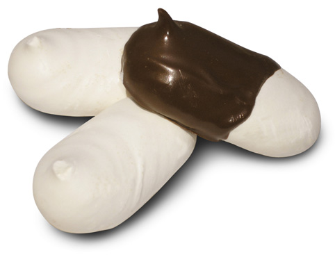 Lady's finger in french classic merigue, very common in Italy. Both plain and chocolate frosted.